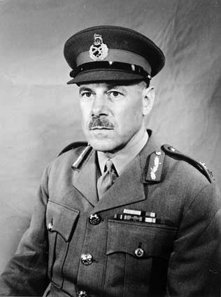 Major General Mervyn Francis Brogan OBE, BE, AMIE, General Officer Commanding Australian Northern Command